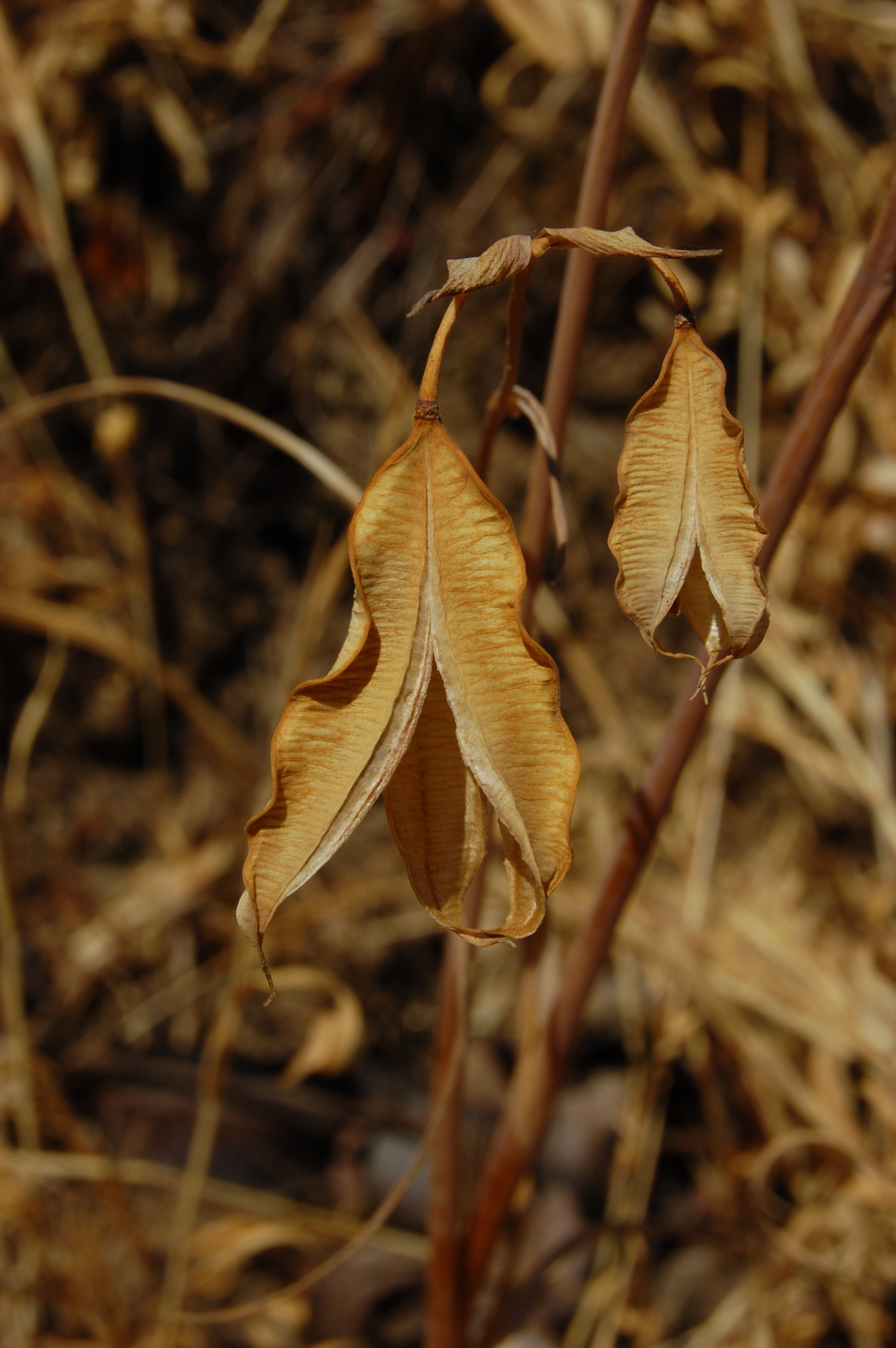 Globe Lily, Fairy Lantern. Calochortus albus. Made in Almaden Quicksilver County Park, San Jose, California, USA. Identified with help of